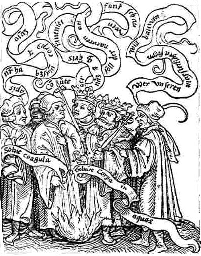 Turba philosophorum taken from the book Artis Auriferae 1752